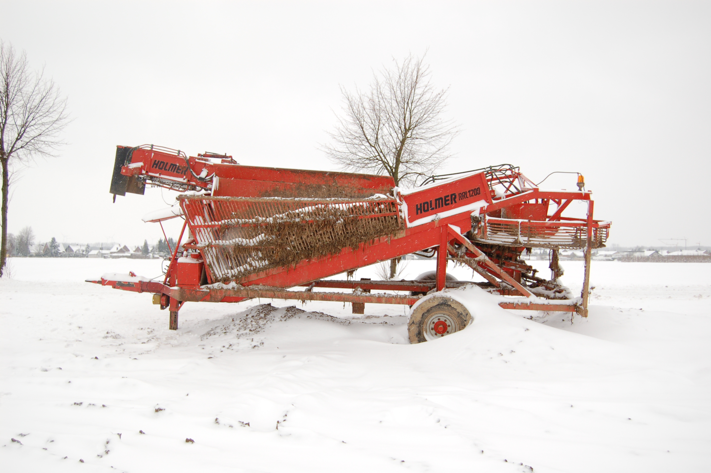 Beet cleaner loader: Holmer, type RRL 1200